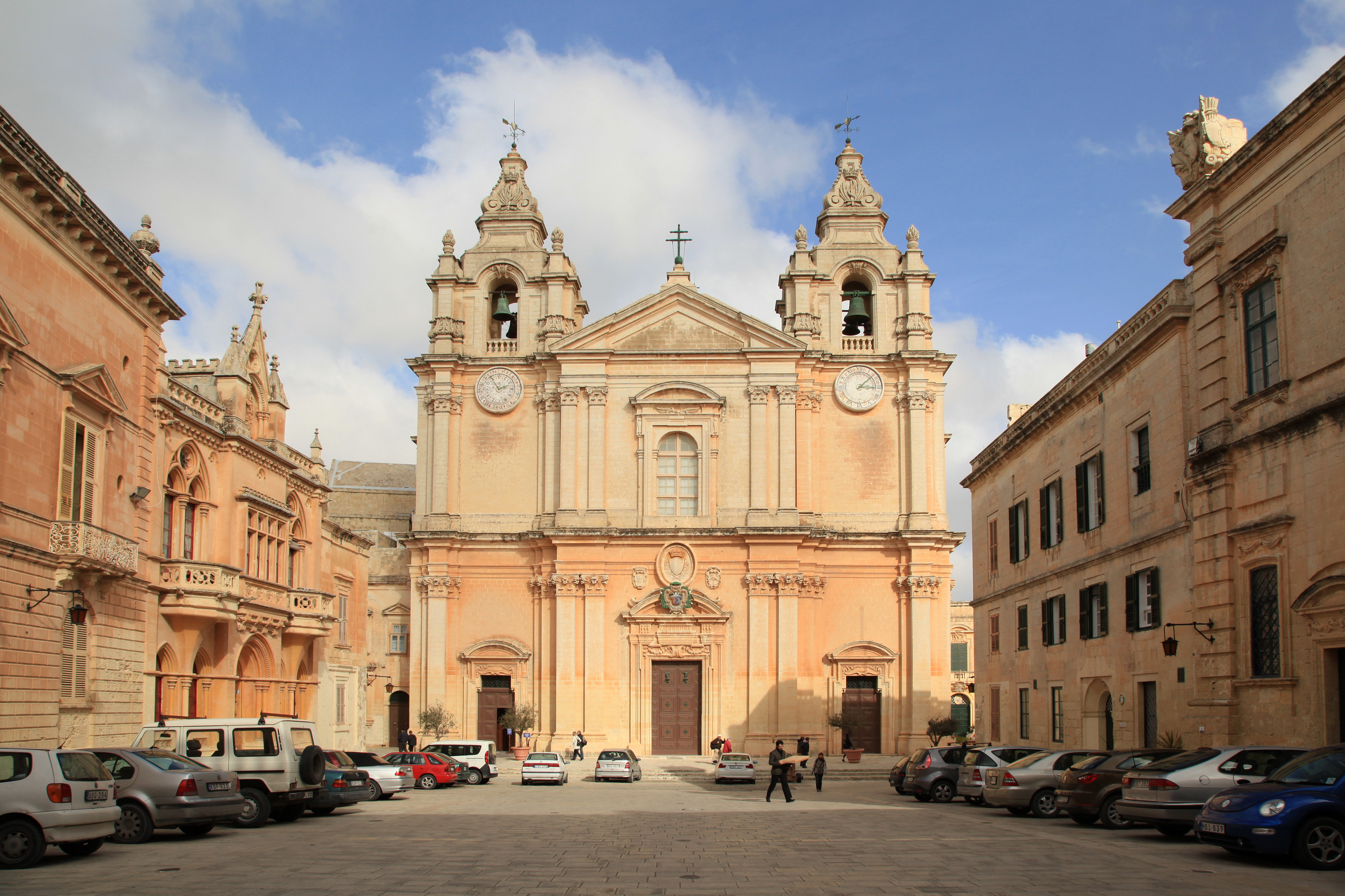 St. Paul's Cathedral, Pjazza San Pawl in Mdina, Malta